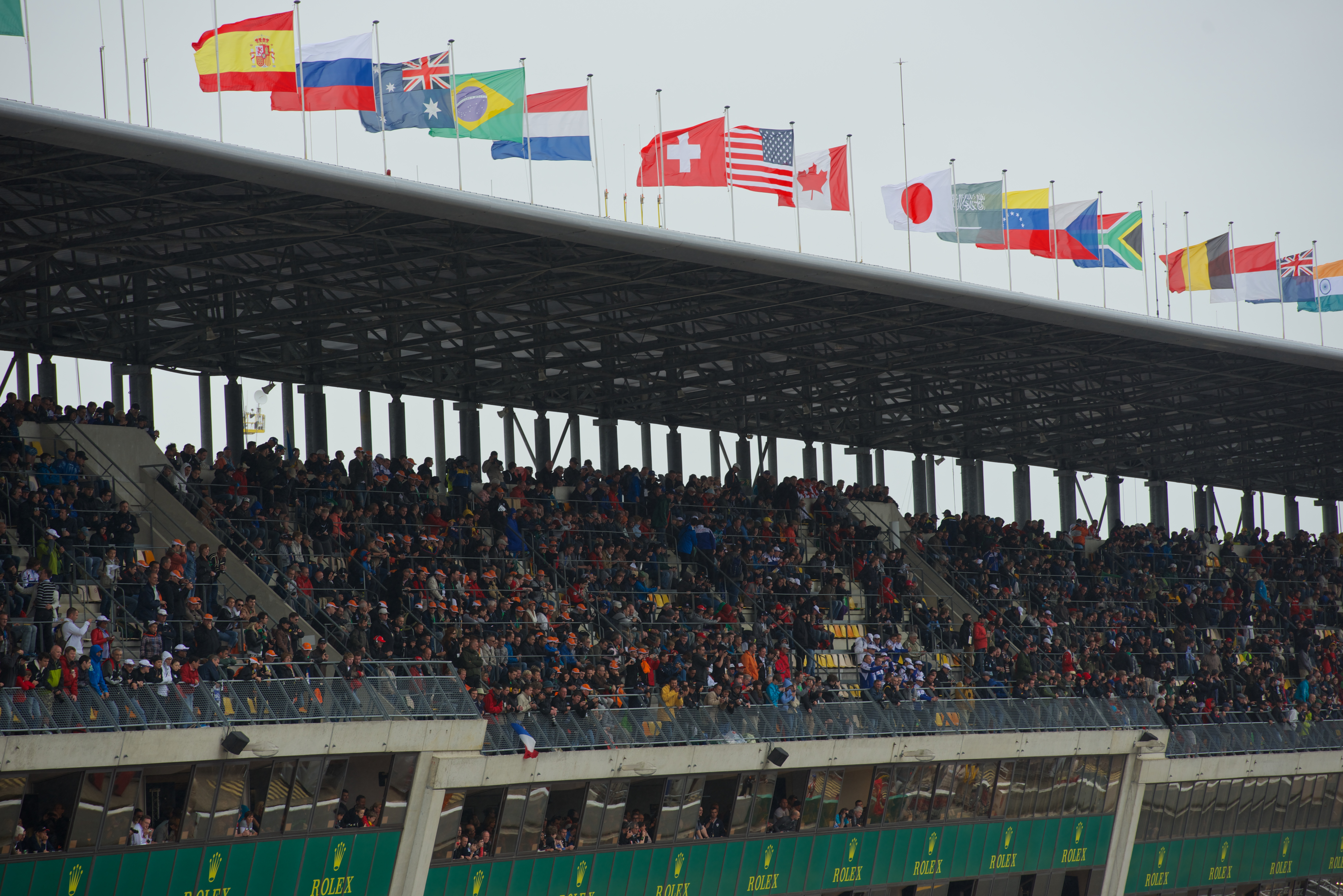 2013 24 Hours of Le Mans